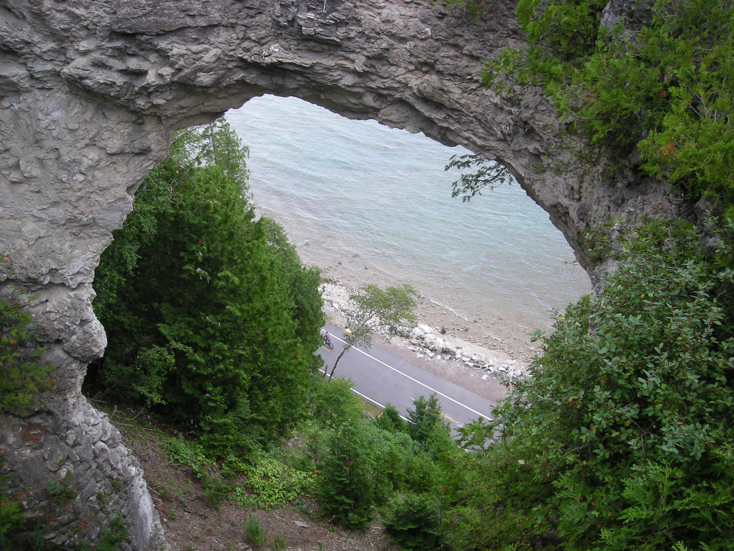 A view of M-185 from Arch Rock on Mackinac Island, Michigan (United States).